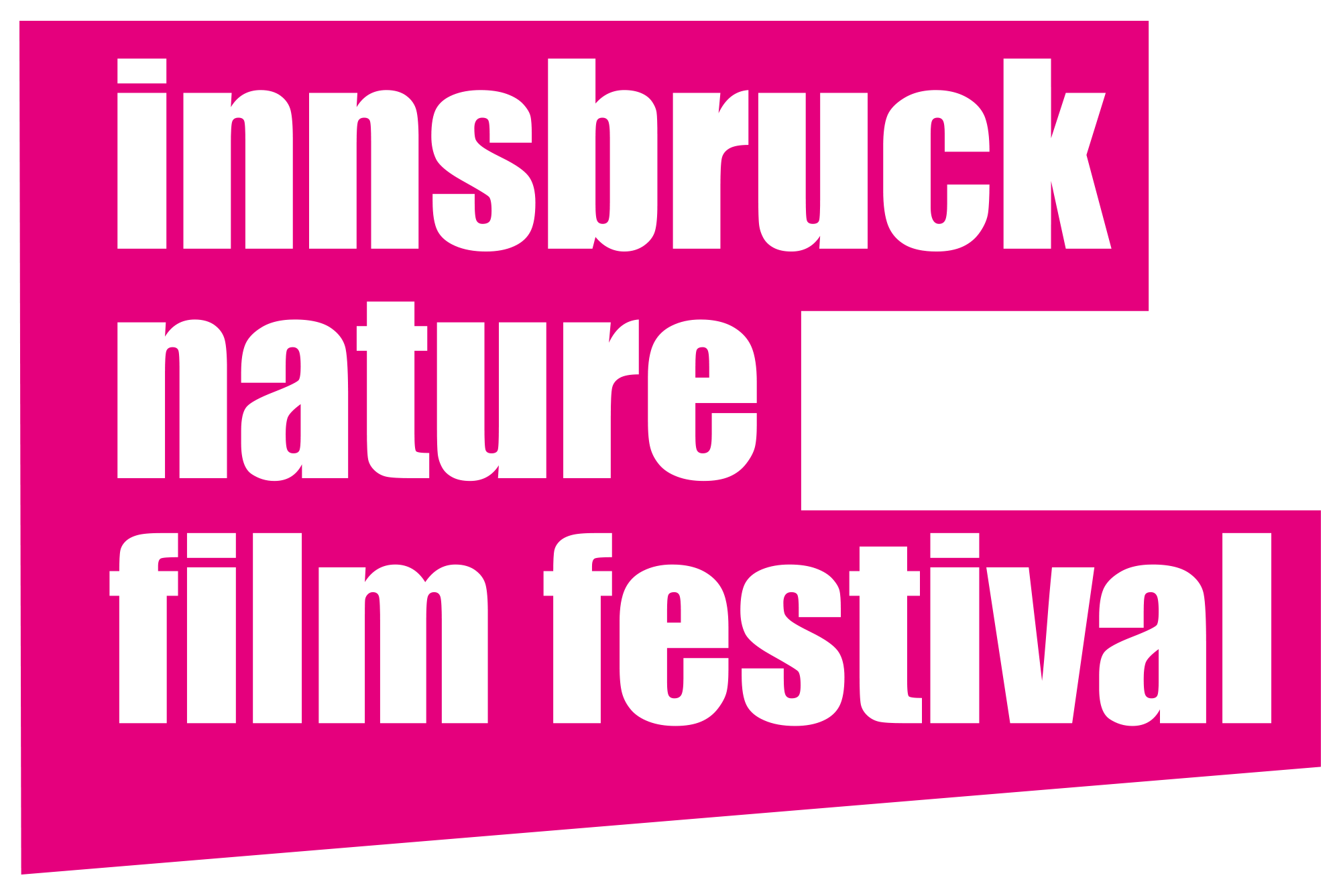 Logo of the Innsbruck Nature Film Festival 2016